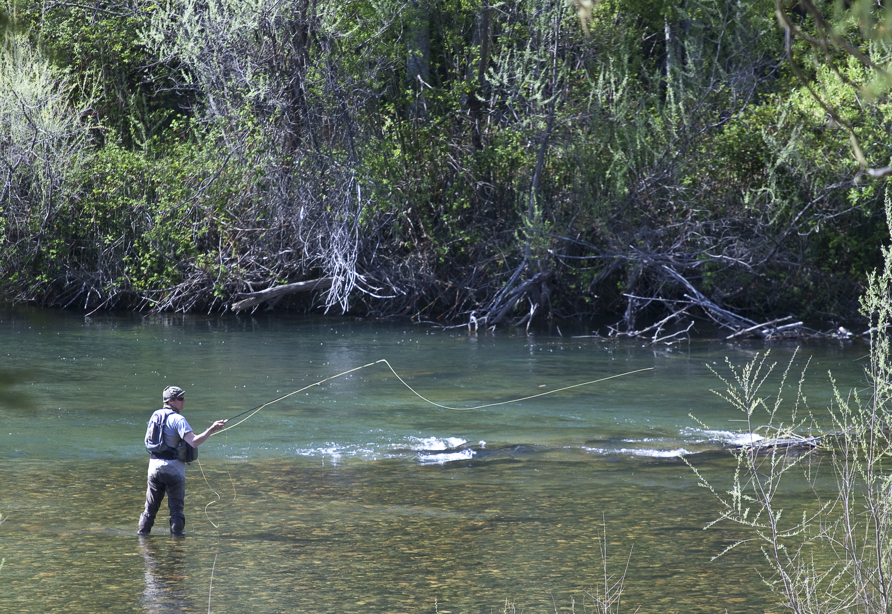 The 43 miles from Lewiston to Pigeon Point - the clear, cold section of the river - is world famous for its fly fishing. Paddlers enjoy the narrow valley with Ponderosa Pine, Douglas fir, Oaks and Madrone trees along the walls of the canyons. Looking for more excitement? The waters below Pigeon Point rage at class III-V! Whether your trip is extreme or laid back, you can swim and camp along the shores at the end of the day. Photo by Bob Wick, BLM